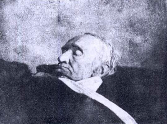 Carl Friedrich Gauss on his deathbed, 1855.